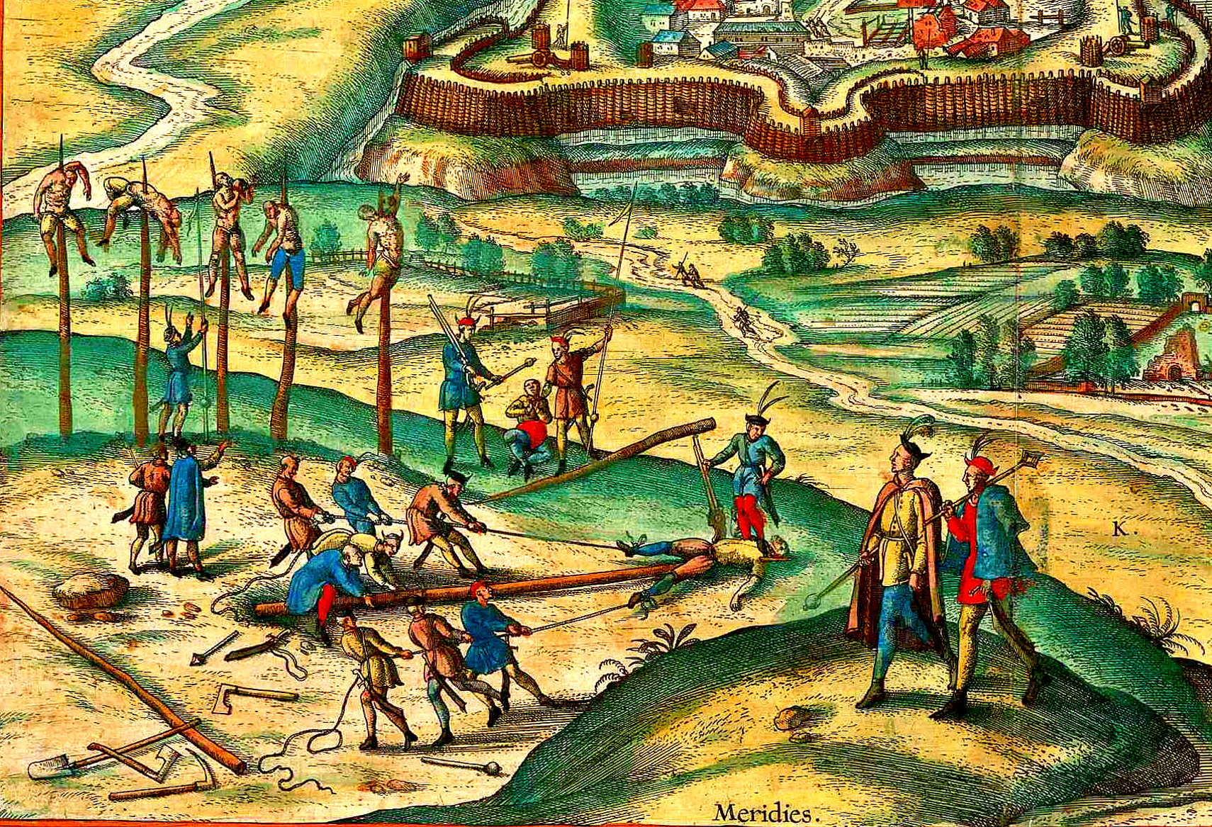 Engraving of the Pápa castle by Georgius Houfnaglius from 1617, in the foreground probably depicting the execution of the mutinous Walloon mercenaries in 1600